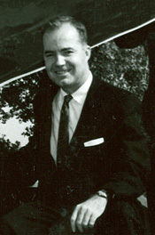 former congressman Ed Edmondson of Oklahoma.